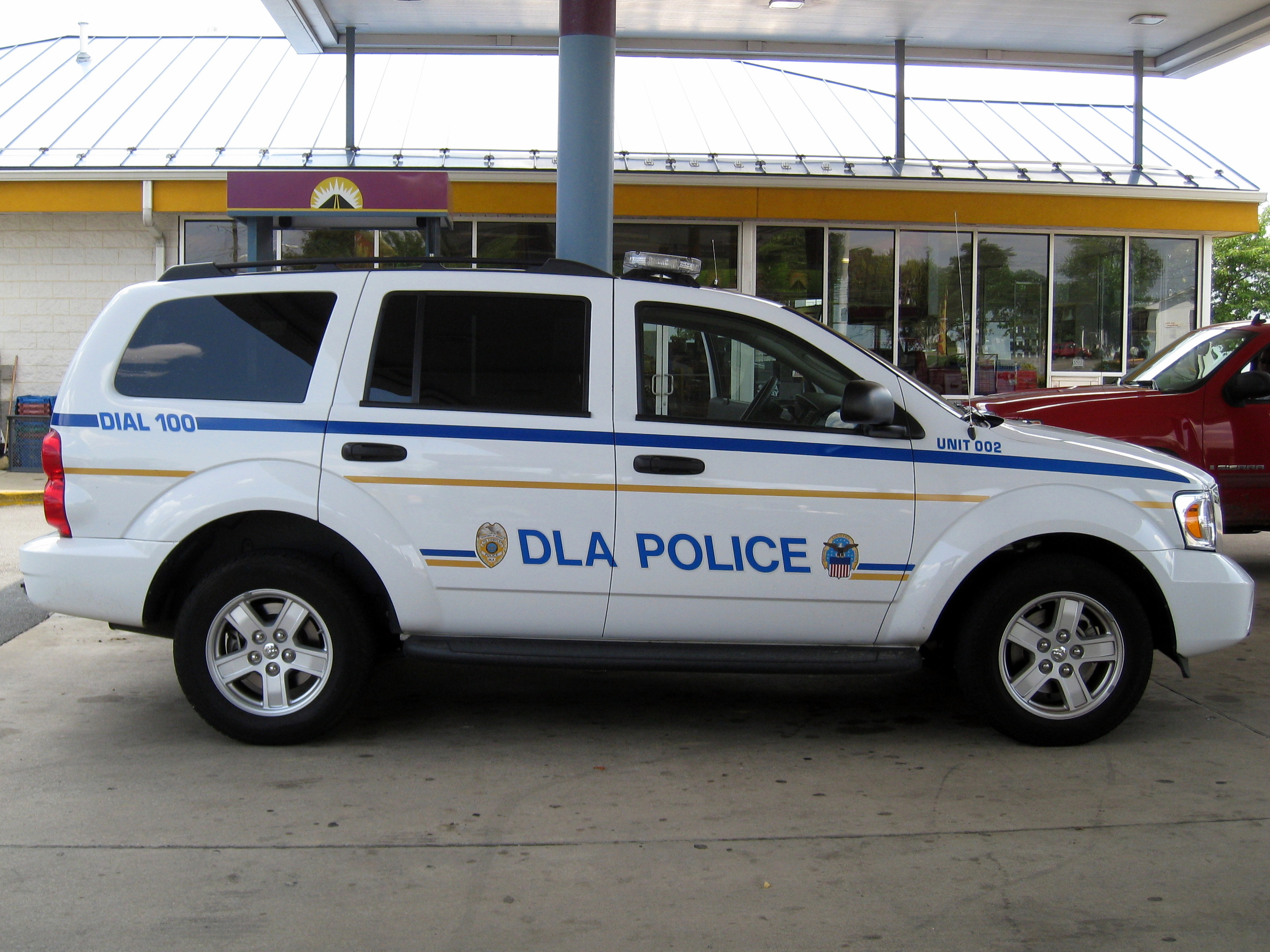 Defense Logistics Agency police vehicle, utilizing the 2007-2009 Dodge Durango, from the Fort Belvoir, Virginia headquarters.